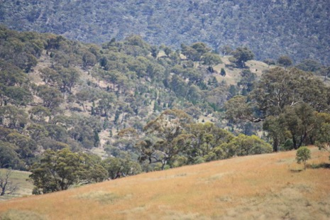 Photo of typical landscape in Scottsdale Reserve, NSW Australia